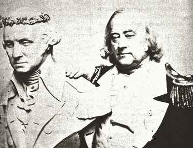 Frederick Coombs (1803-1874) aka George Washington II